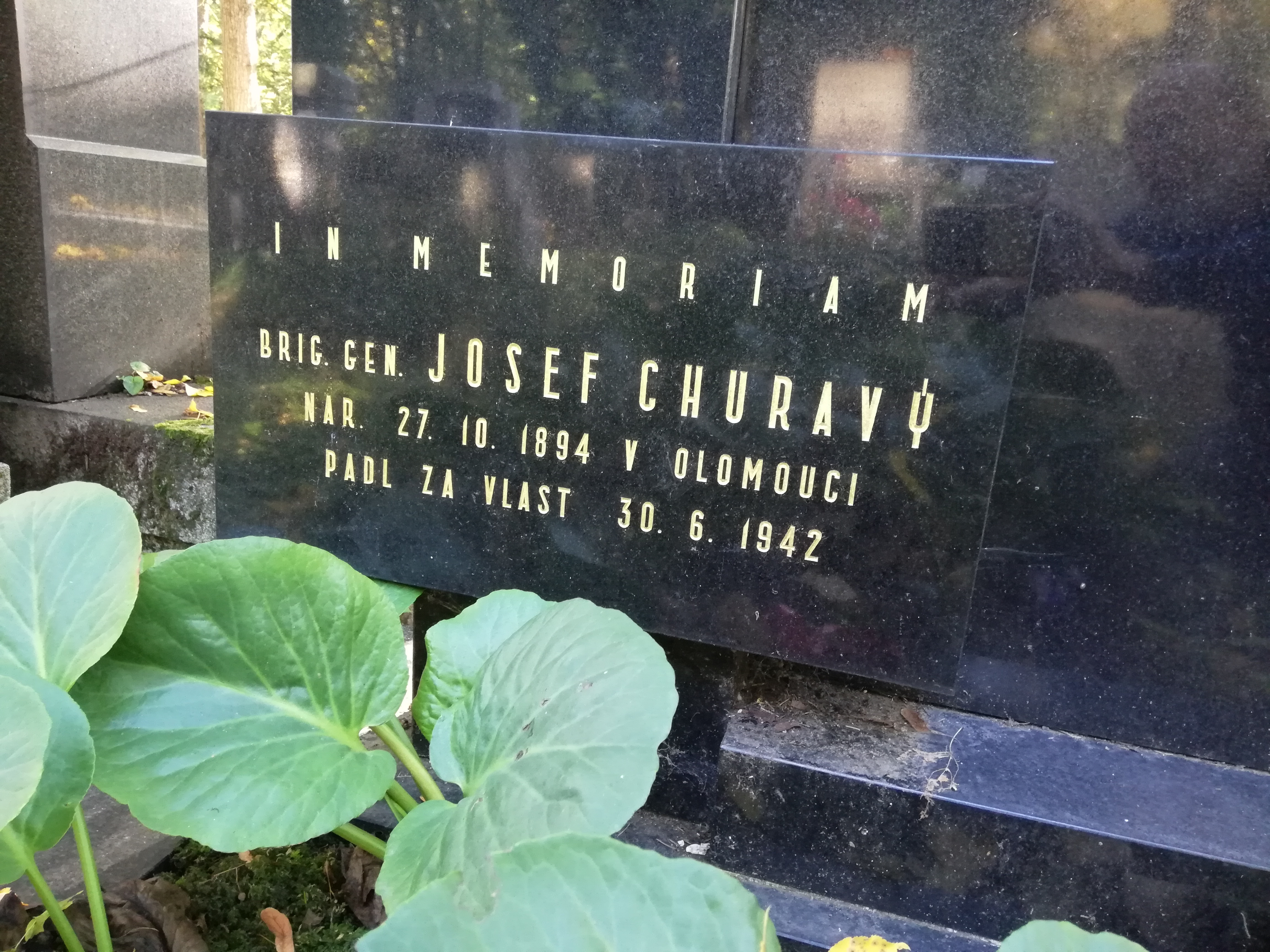 Olšany Cemeteries in Prague, Cenotaph of Brigadier General Josef Churavý (1894–1942)